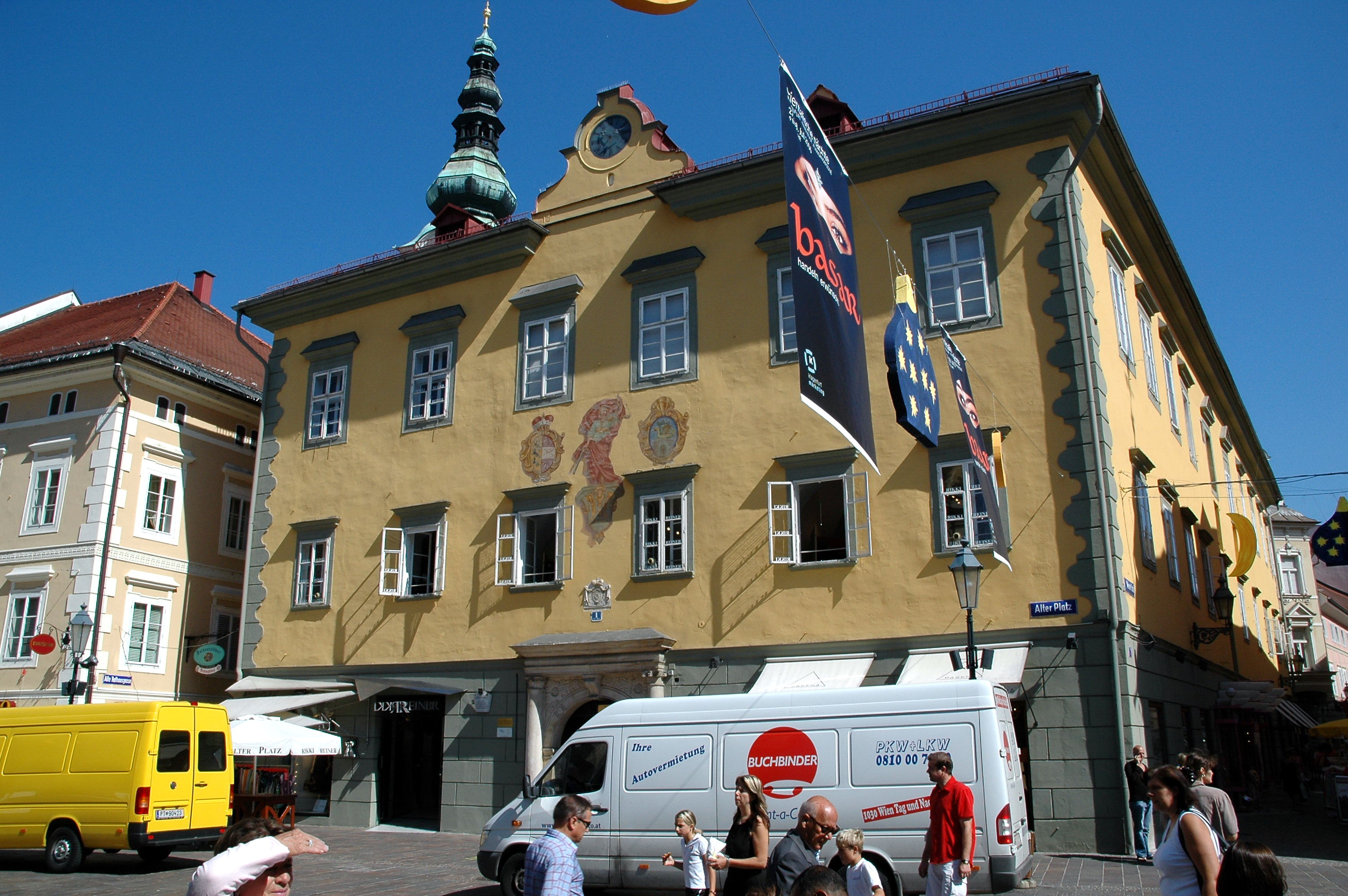 Old guildhall on the Alter Platz in the Inner City of Carinthian`s capital Klagenfurt on the Lake Woerth, Carinthia, Austria